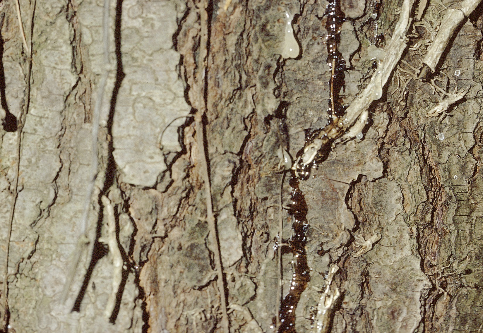 Eastern White Pine. Bark.